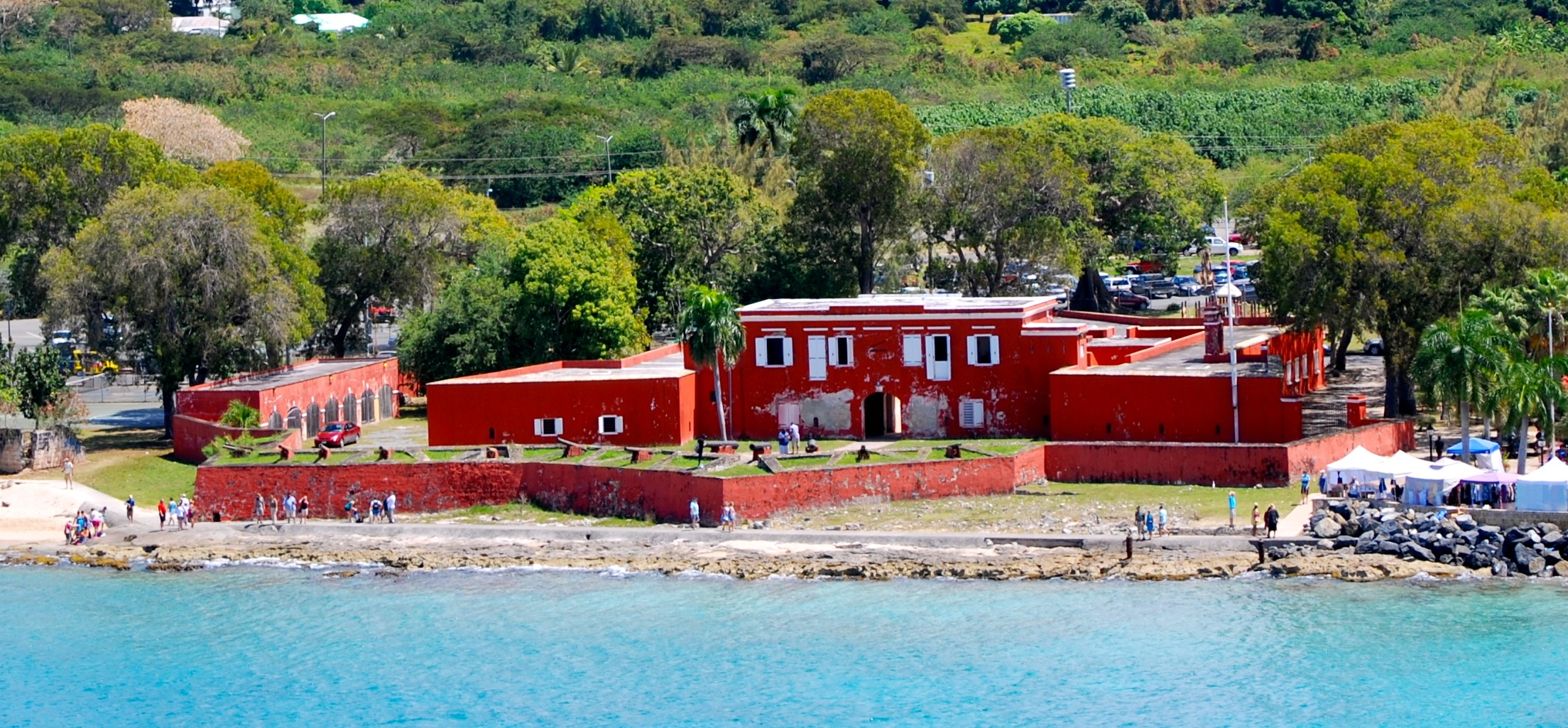 Fort Frederik near downtown Frederiksted on the island of Saint Croix in the U.S. Virgin Islands